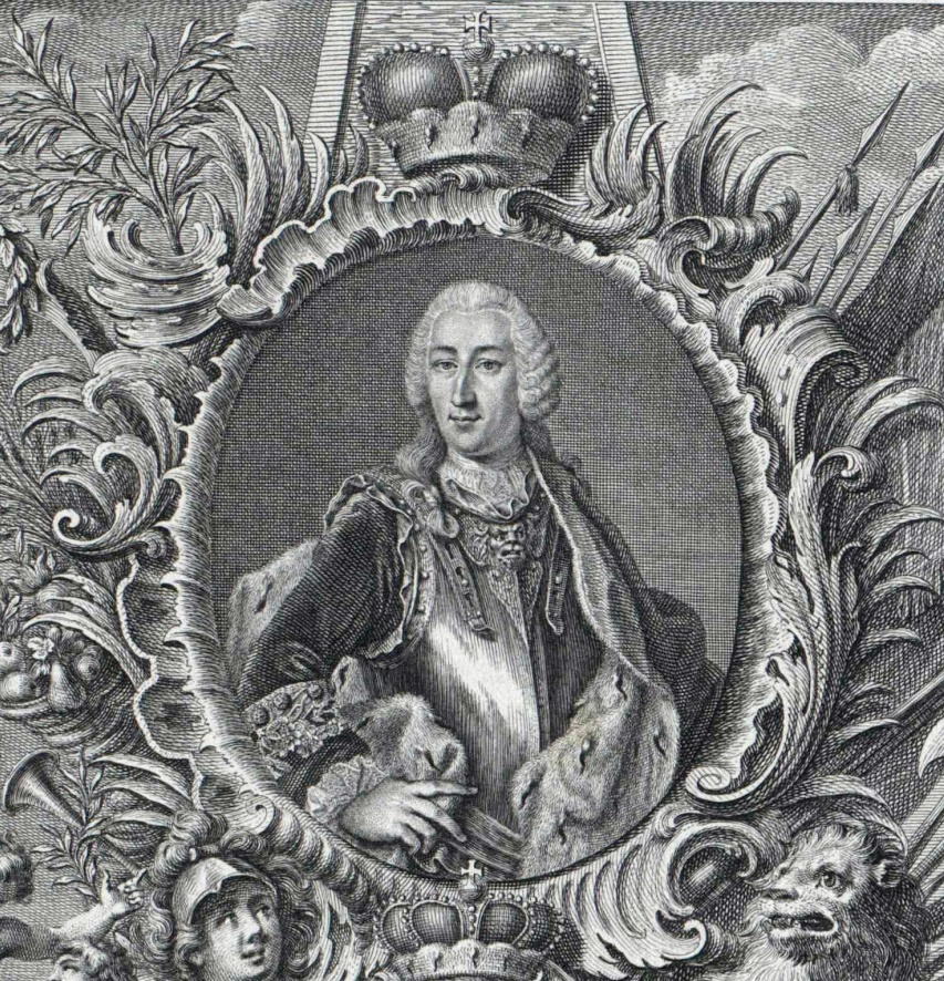 Fürst Karl Thomas zu Löwenstein-Wertheim-Rochefort (1714-1789)